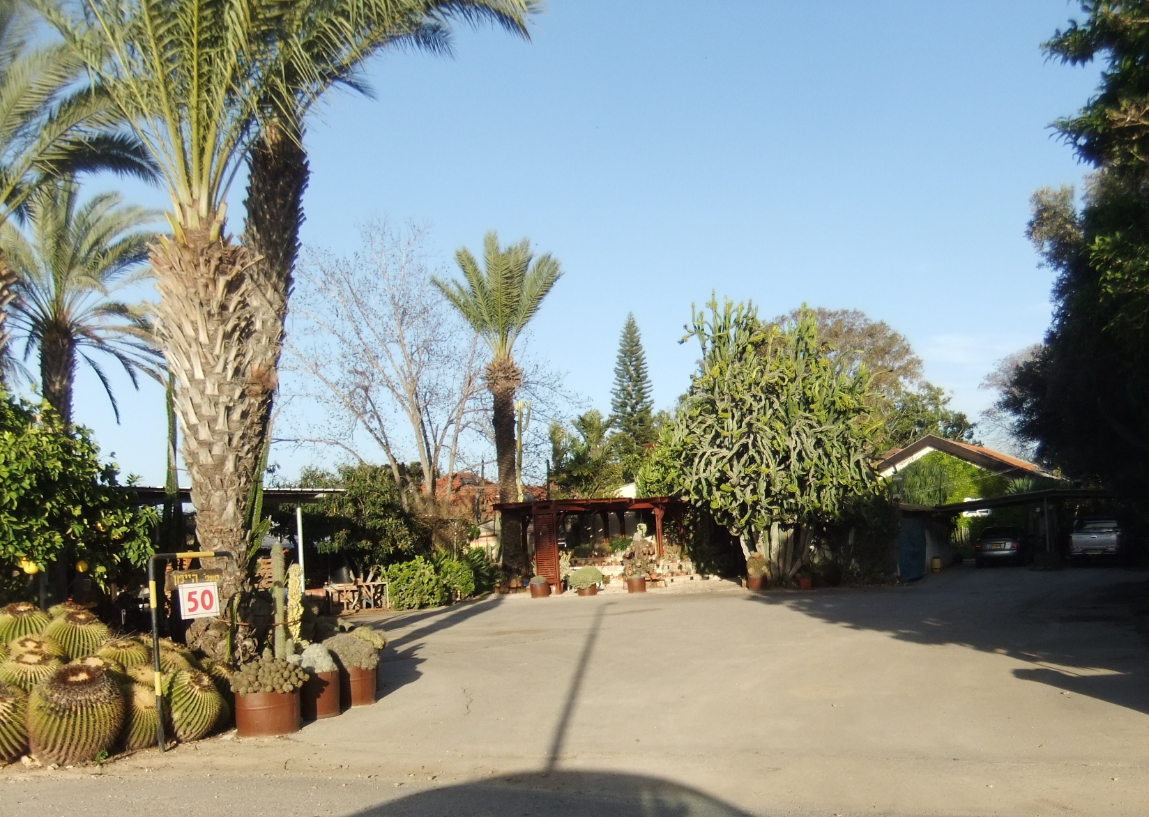 House in Kfar Maimon